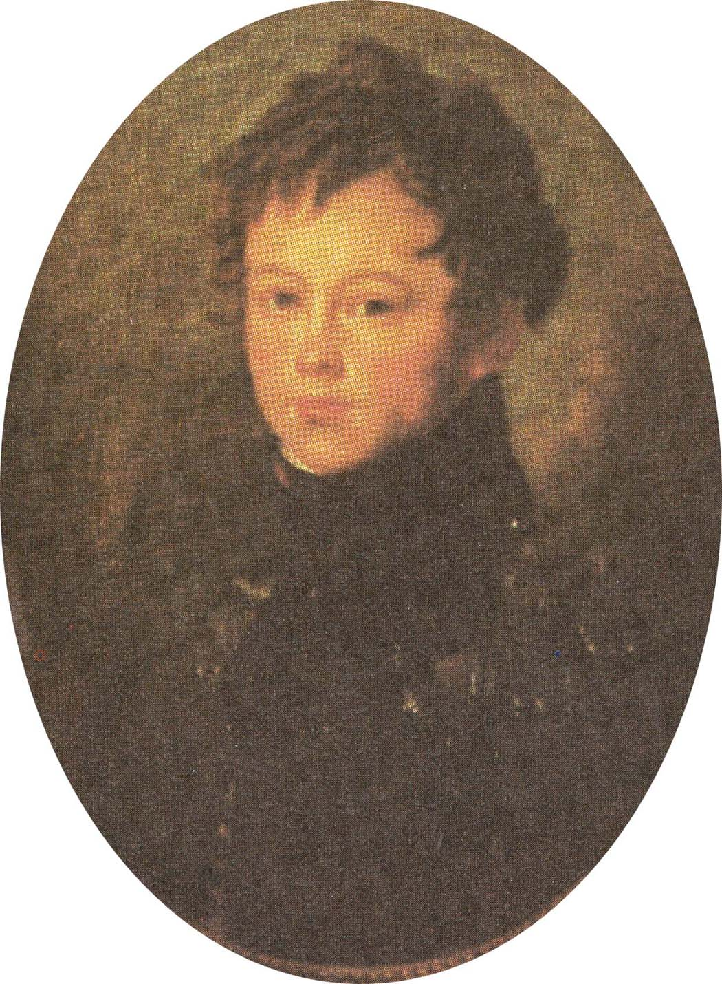 Portrait of HRH Moritz Wilhelm August Carl Heinrich von Nassau (Castle Biebrich near Wiesbaden, 21 november 1820 - Vienna on the 23 maart 1850)